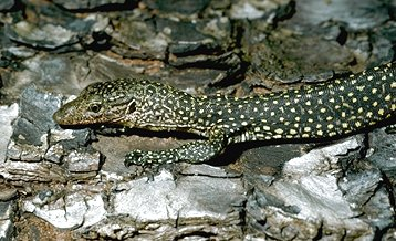 Varanus indicus from Guam monitor lizard